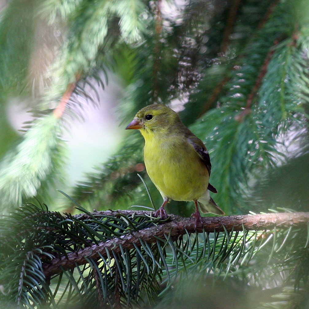 Have a great week! These are shy birds and are hard for me to capture! EXPLORE June 8, 2009